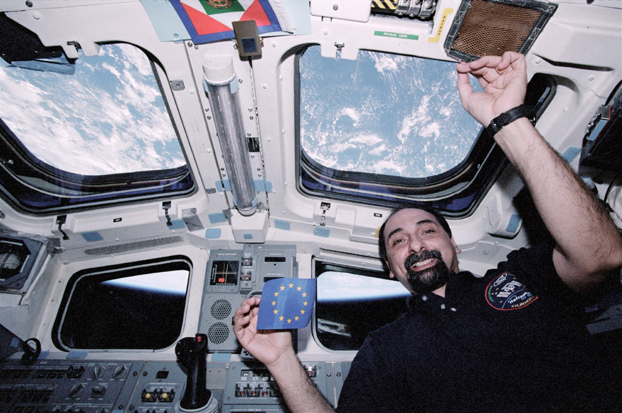 Guidoni with EU flag on board space shuttle Endeavour during mission STS-100